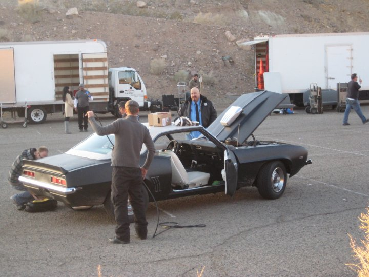 'Hero' car from the music video "Stylo" by The Gorillaz. On location in Calico, CA photographed December 13th, 2009 by Trevor P. Hirst